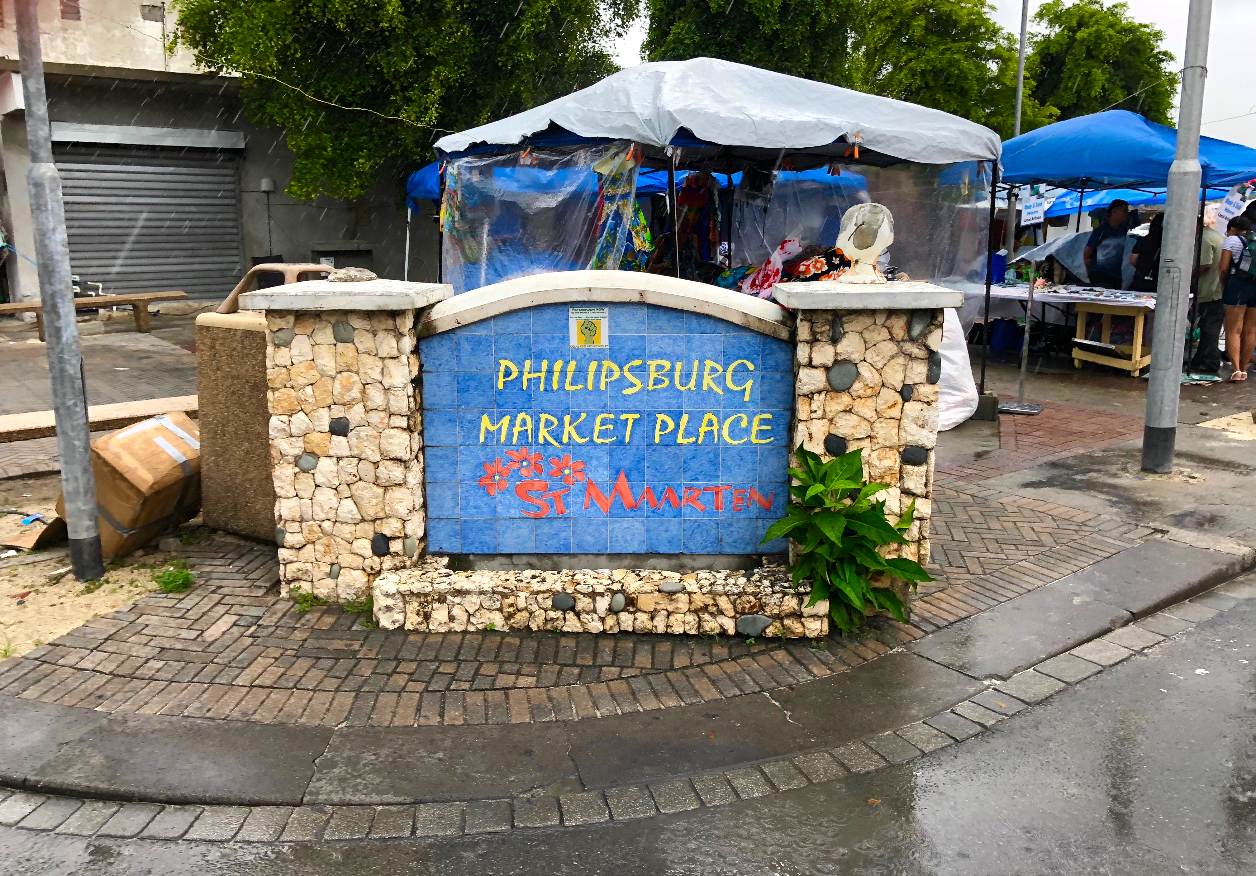 Philipsburg Marketplace.